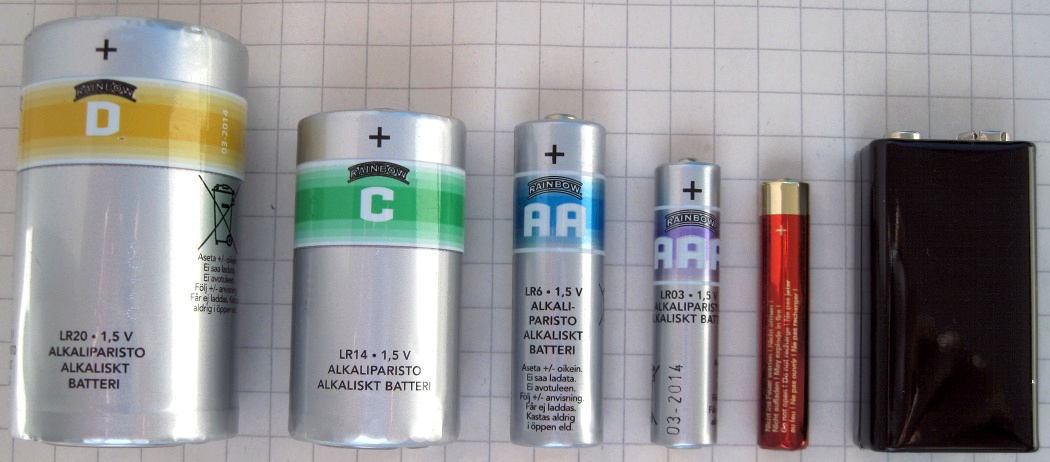 A side by side line up of D, C, AA, AAA, AAAA and 9V (PP3) batteries for comparison purposes.